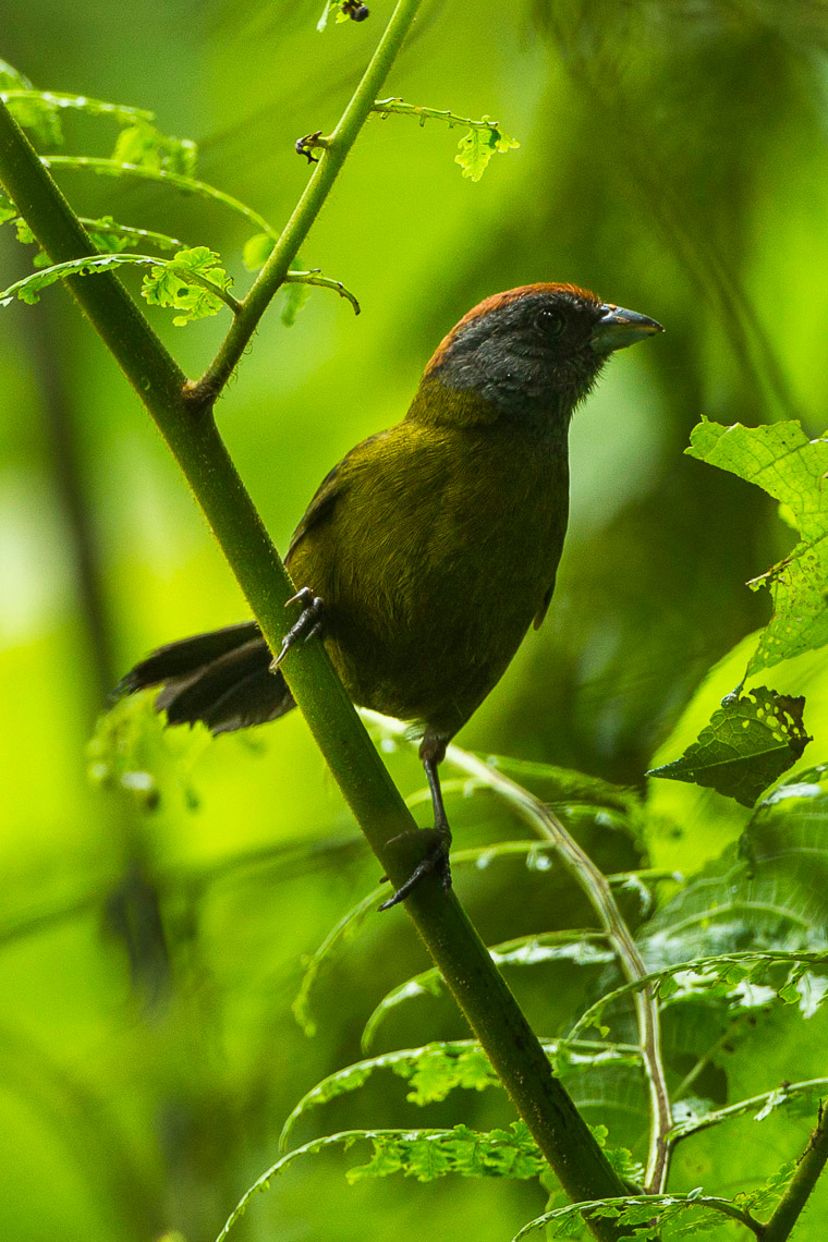 Olive Finch - Colombia_S4E3362